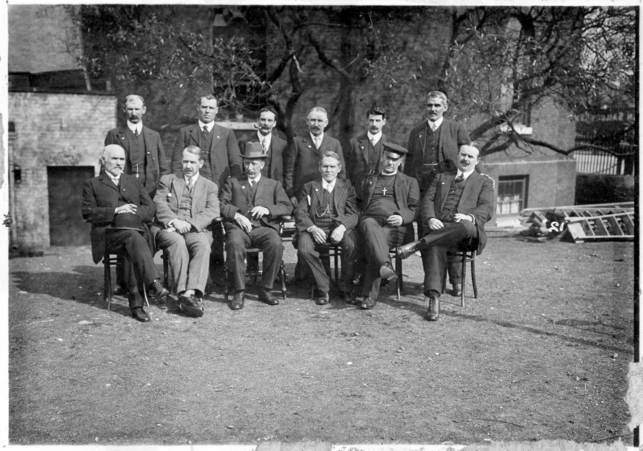 Trade unionists at the Maritime Hall, West India Docks, London. Joseph Havelock Wilson is seated third from left. He is accompanied by J. Henson, J. H. Bennet, G. Jackson, J. R. Bell, 'Kenny', 'Captain' Tucker, Father Hopkins, E. Cathary and Captain McGee Davies. The photograph was taken in the aftermath of the 1911 seamen's strike.